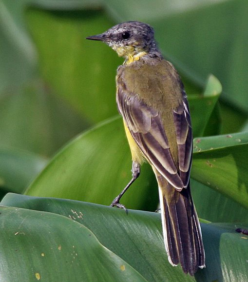 Yellow wagtail (Motacilla flava) in Kolkata, West Bengal, India.